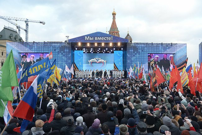 Rally in support the Accession of Crimea to Russia